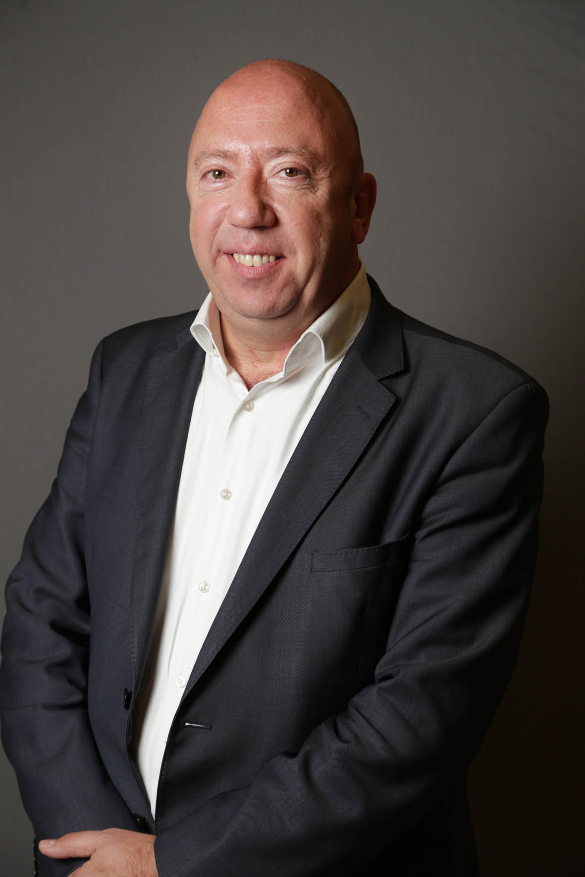 Candidats Eleccions Generals 2015 Joan Bagué